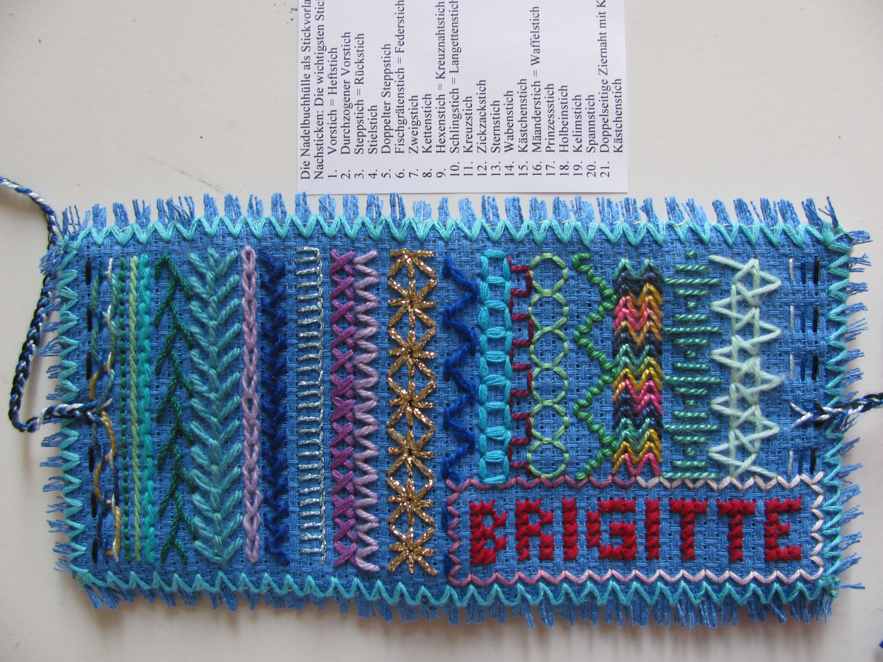 needle case